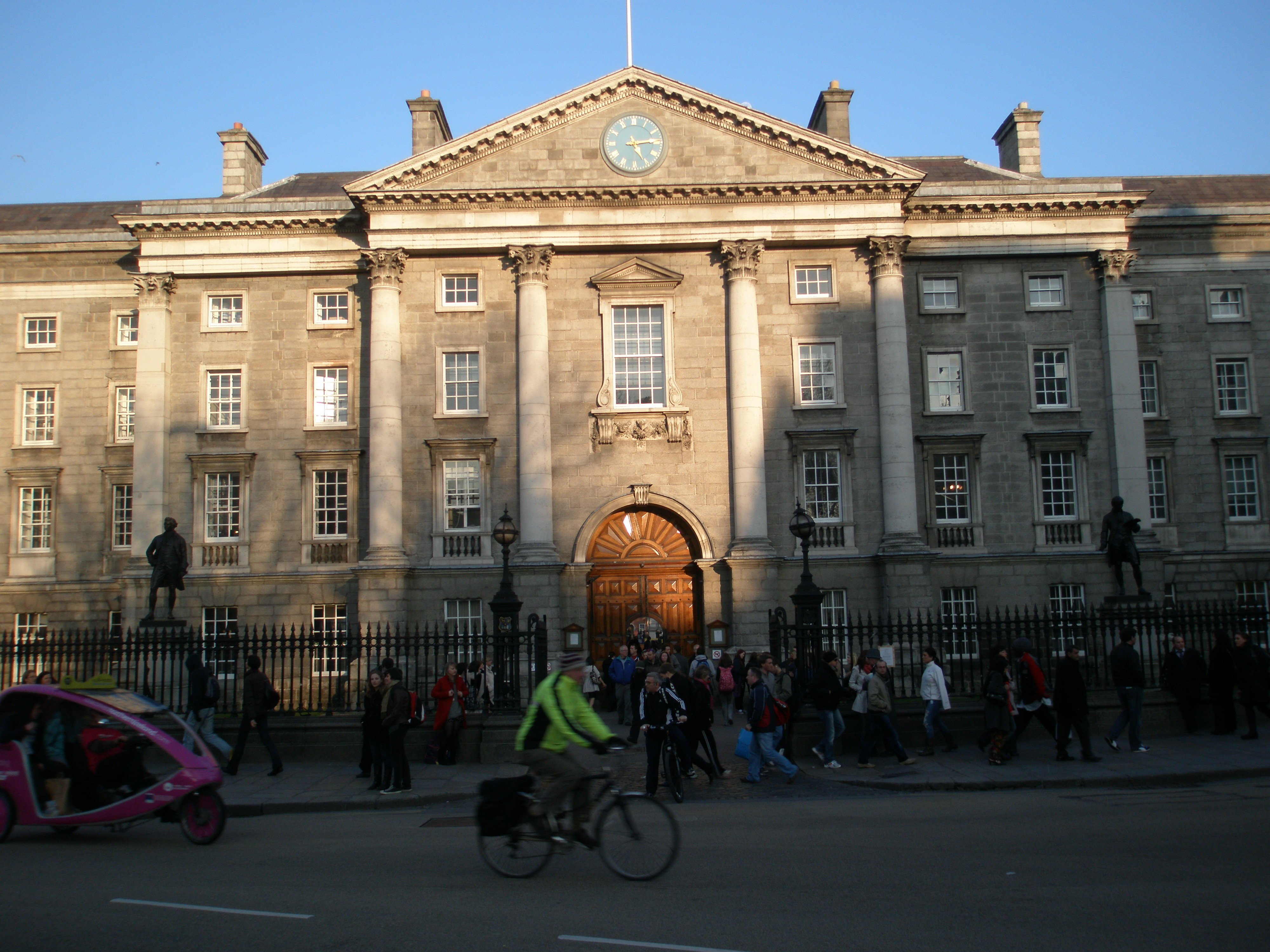 Trinity College front, Dublin